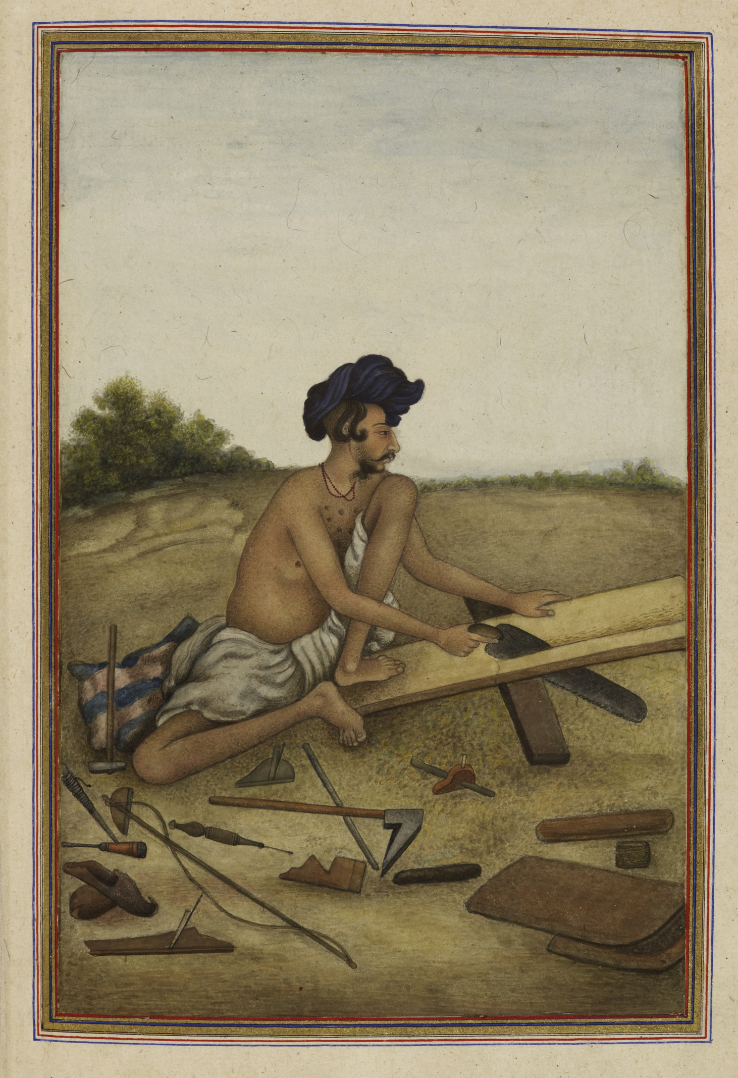 Tarkhan, carpenter caste of the Panjab. Man sawing a plank.